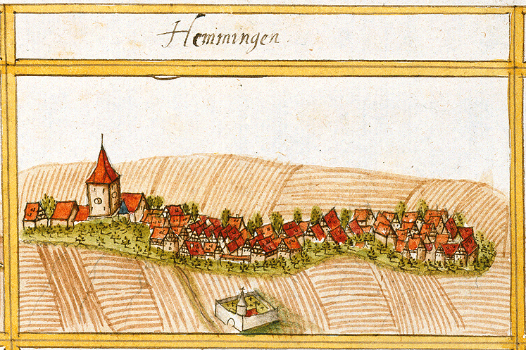 View of Hemmingen from the forest register books created by Andreas Kieser